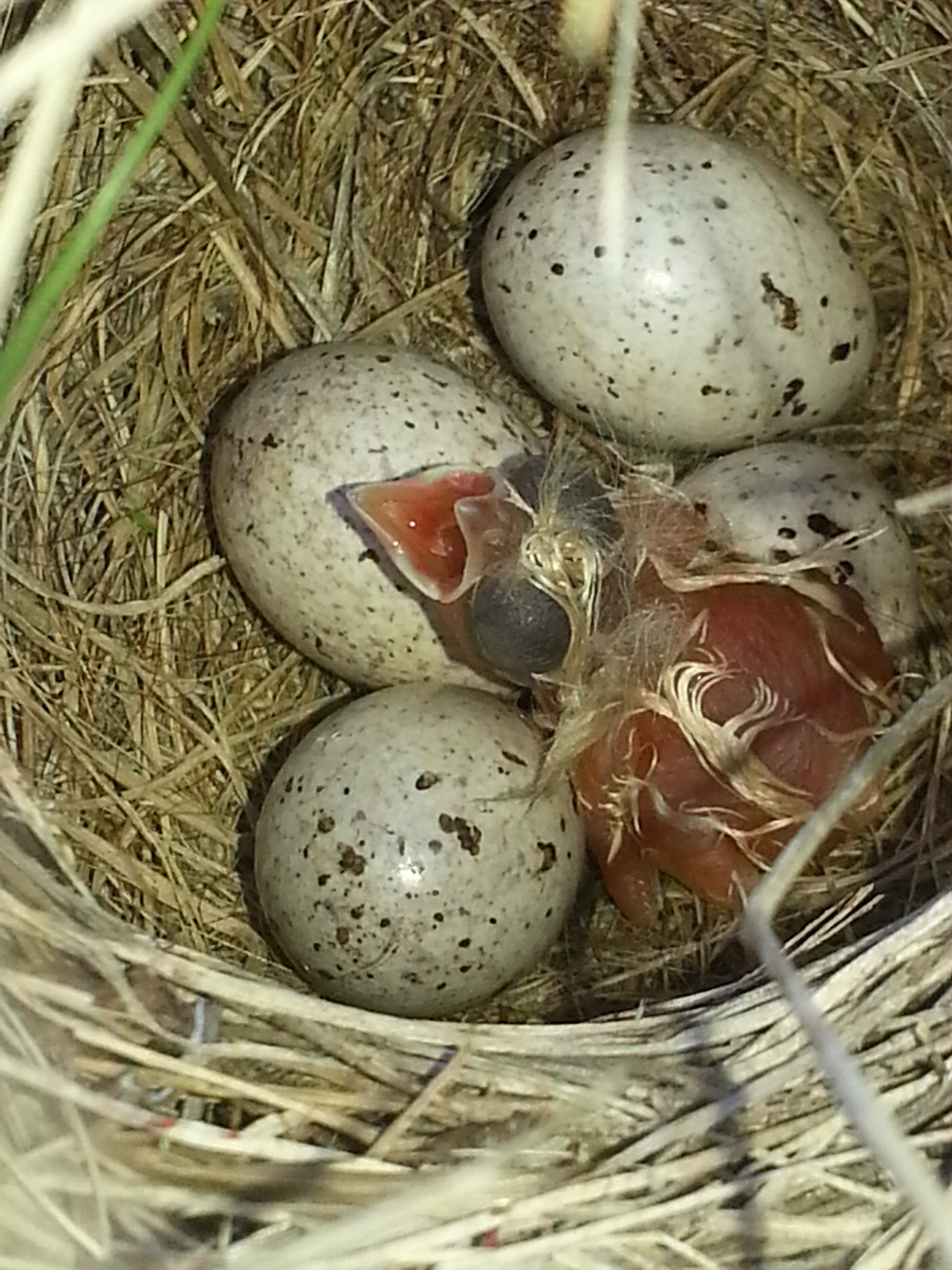 Chestnut collared Longspur, Calcarius ornatus, newly hatched nestling, still wet, begging in nest. The egg behind it is likely "pipping", or beginning to crack open. The parents have likely already removed the egg shells after this nestling hatched. Chestnut collared Longspurs nest in grass, on the ground. NOTE: This nest was photographed as part of a nest monitoring project in the oil fields of Alberta, Canada by a professional trained in viewing sensitive nests and minimizing the disturbance to the birds and the surrounding vegetation. Photographing nests simply to "snap a cute pic" can expose them to predators and disrupt the feeding and care of nestlings!